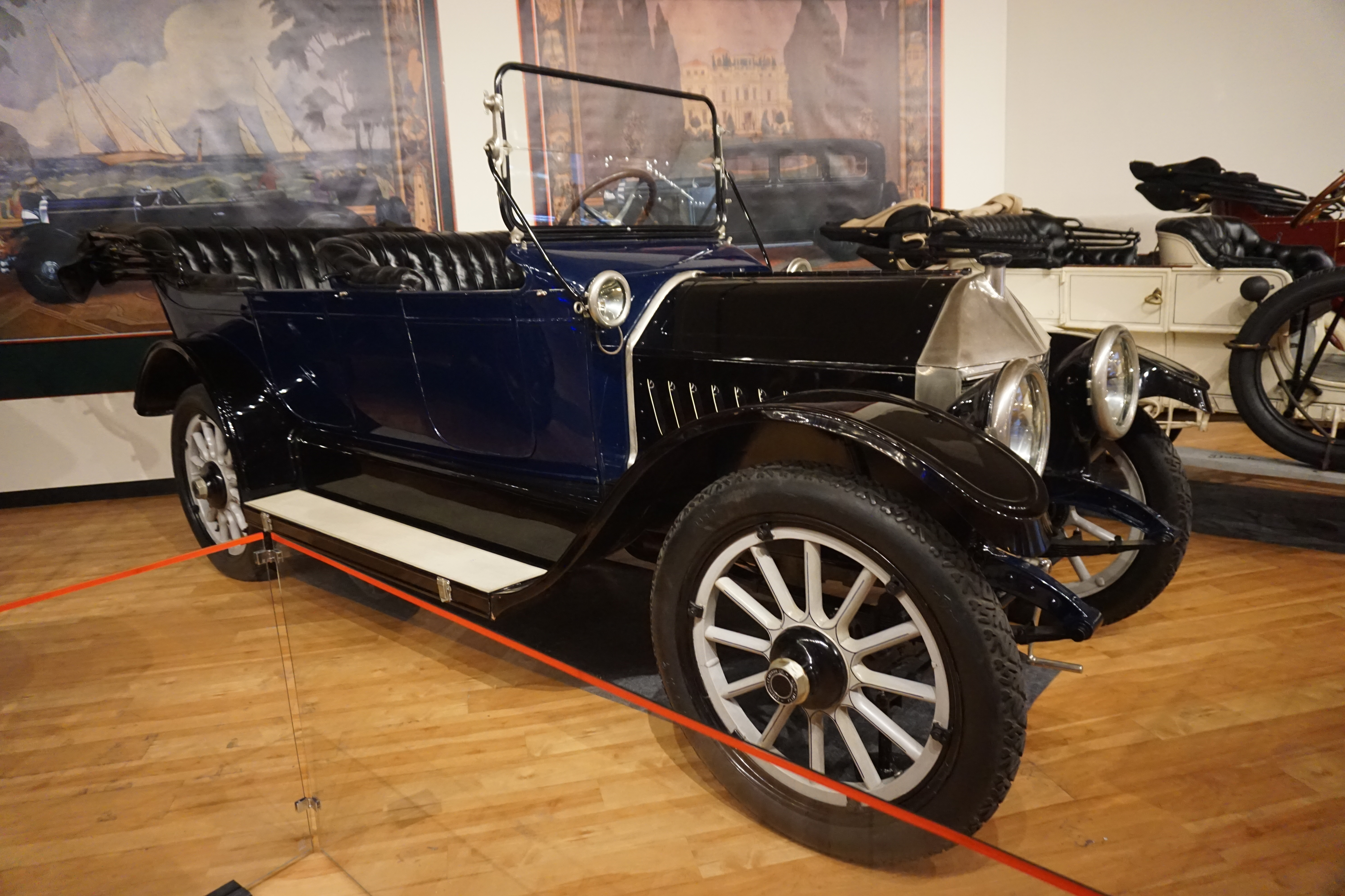 A 1913 Chevrolet Classic 6 at the Sloan Museum at Courtland Center in Burton, Michigan (United States).